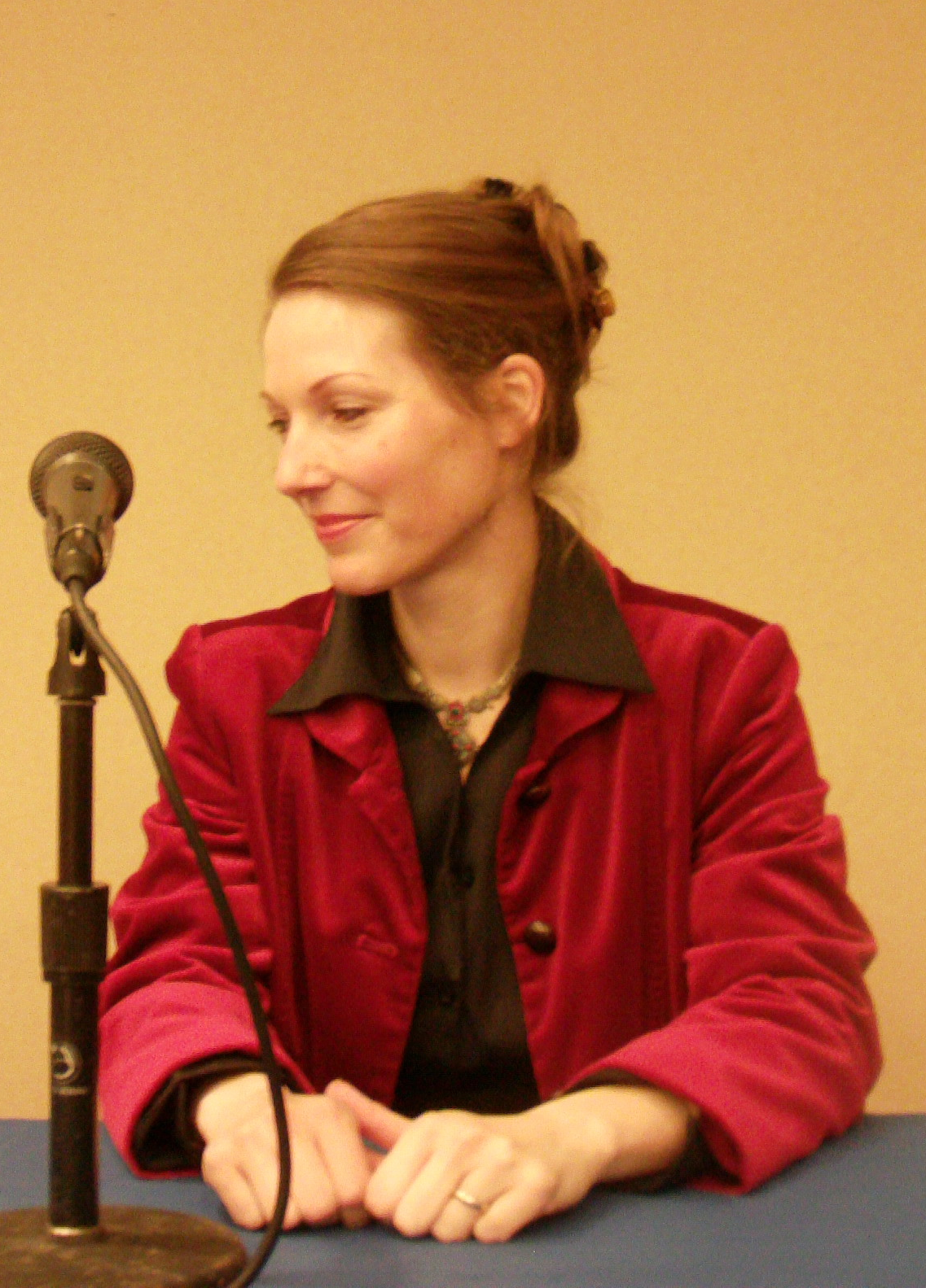 Anne Fortier at a book convention in 2007. This image has been cropped from the original for space concerns. No other changes have been made.